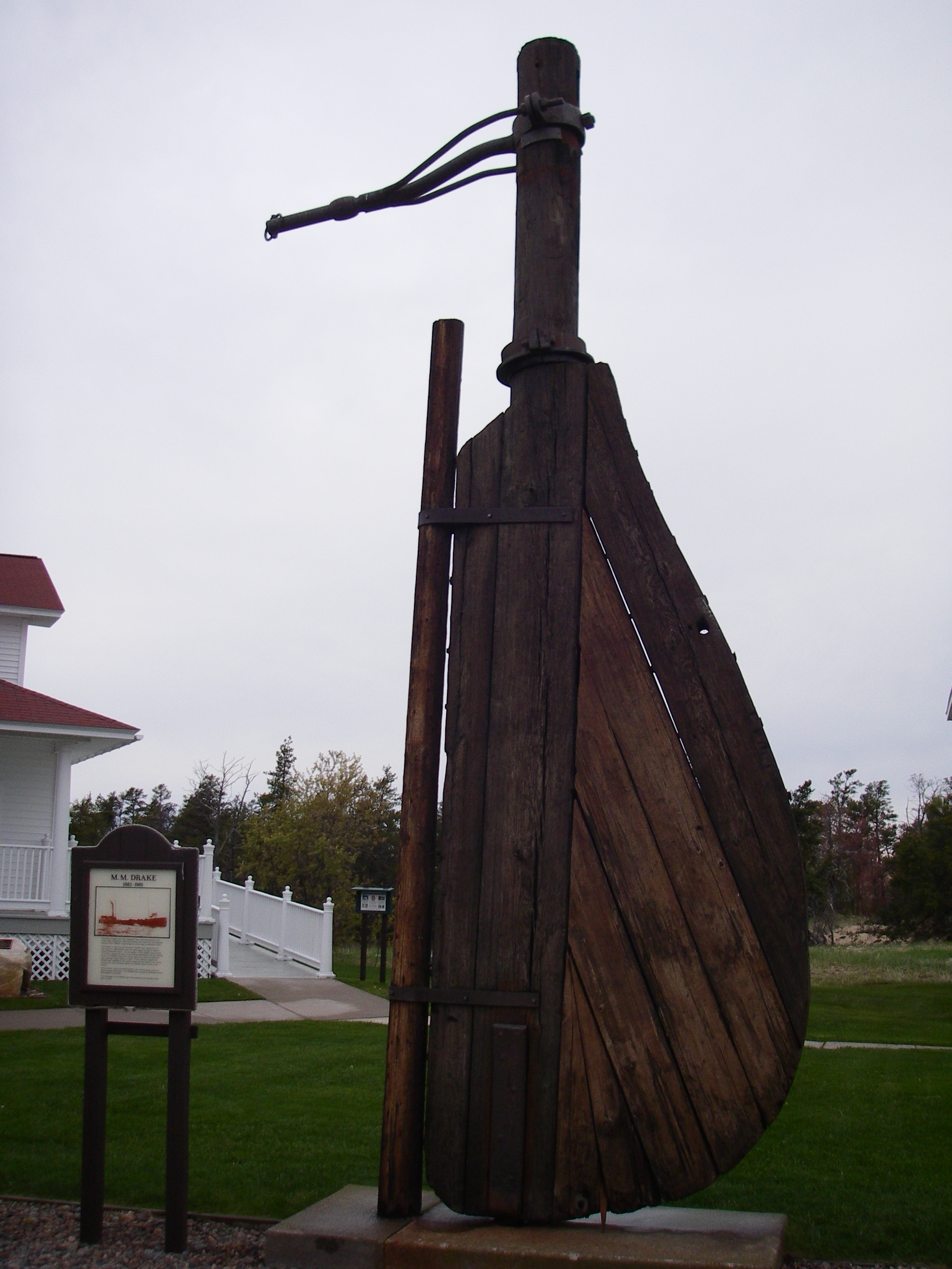 The 1882 steamship M.M. Drake's rudder at Whitefish Point